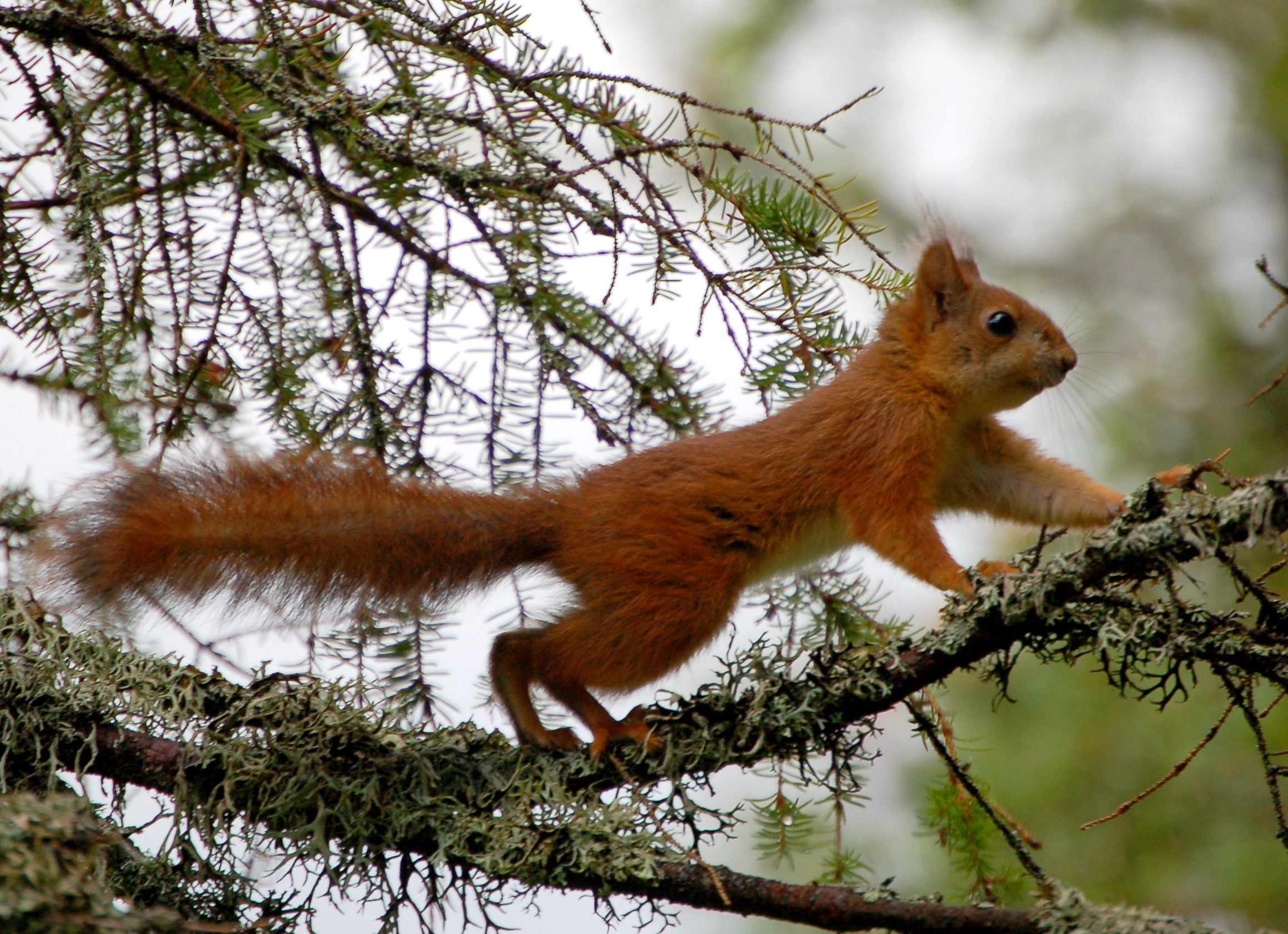 Red Squirrel. Pict taken Blefjell, Norway - 800 m above sea level.